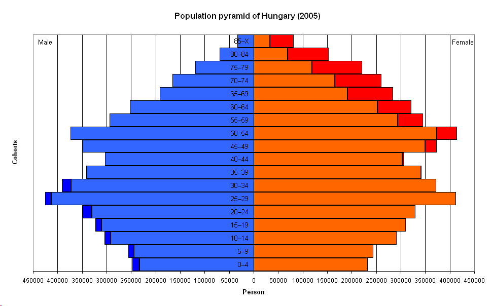 Population pyramid of Hungary, 2005